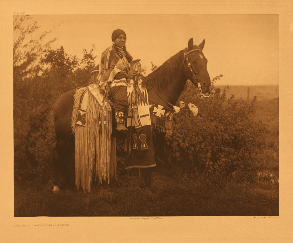 A young lady With her horse